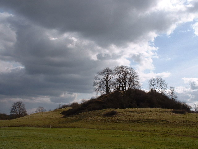 Castle Hill, Fenny Castle.